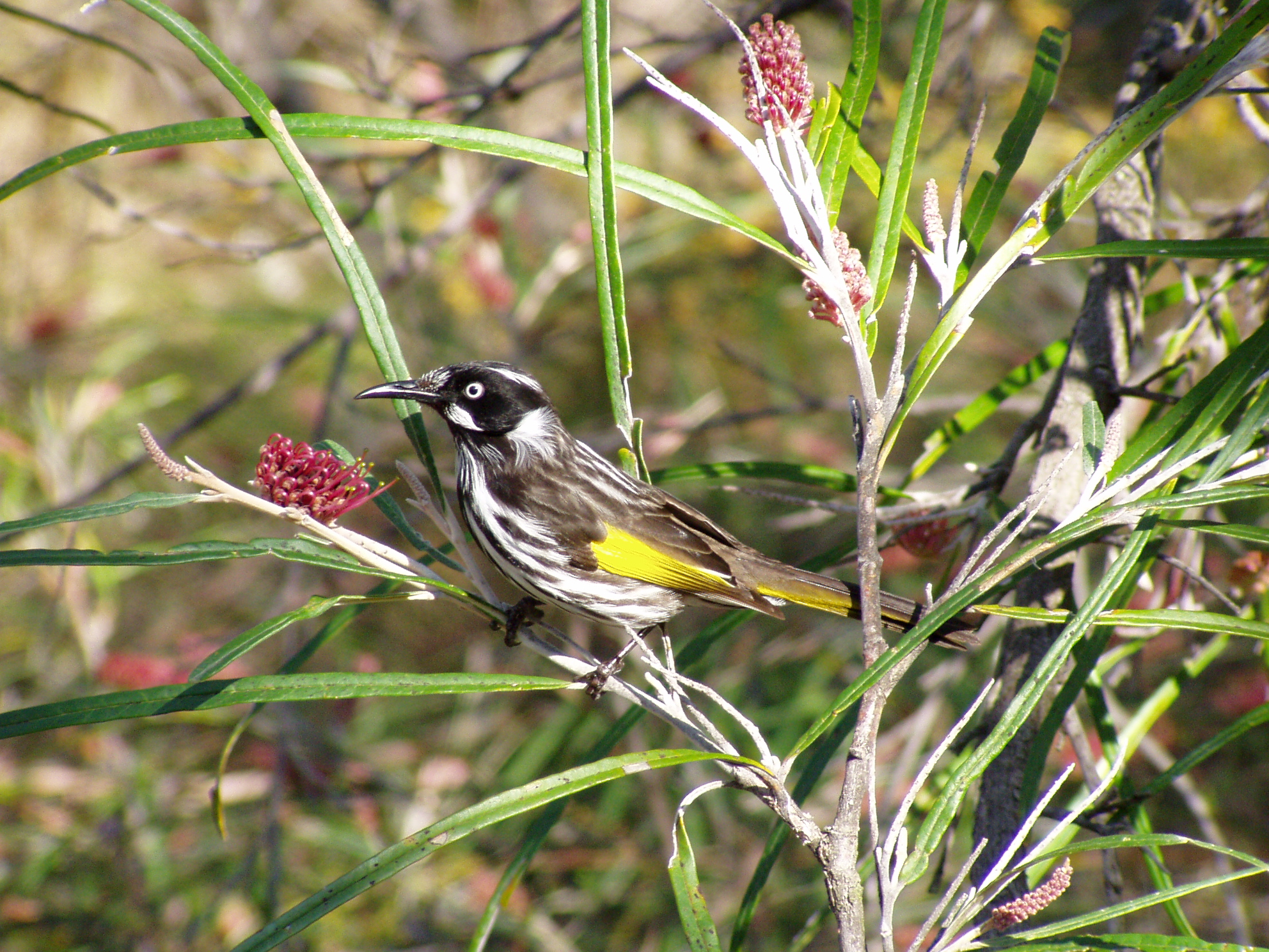 Description: New Holland Honeyeater (Phylidonyris novaehollandiae) in a Grevillea asplenifolia bush Location: Australian National Botanic Gardens, Canberra, Australian Capital Territory, Australia Date: 2005-09-21 Source: picture taken by Danielle Langlois Licence: Released under GFDL and Creative Commons licenses by the photographer